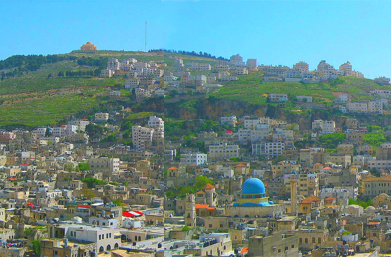 This photo is a cropped, sharpened, and colour-enhanced version of the following: This picture was assembeled from multiple pictures taken in April 2005 from a location somewhat in the middle of the city of nablus in occupied west bank in historical palestine, the picture shows mainly the south mountain "jirziem" and large parts of the old and new city